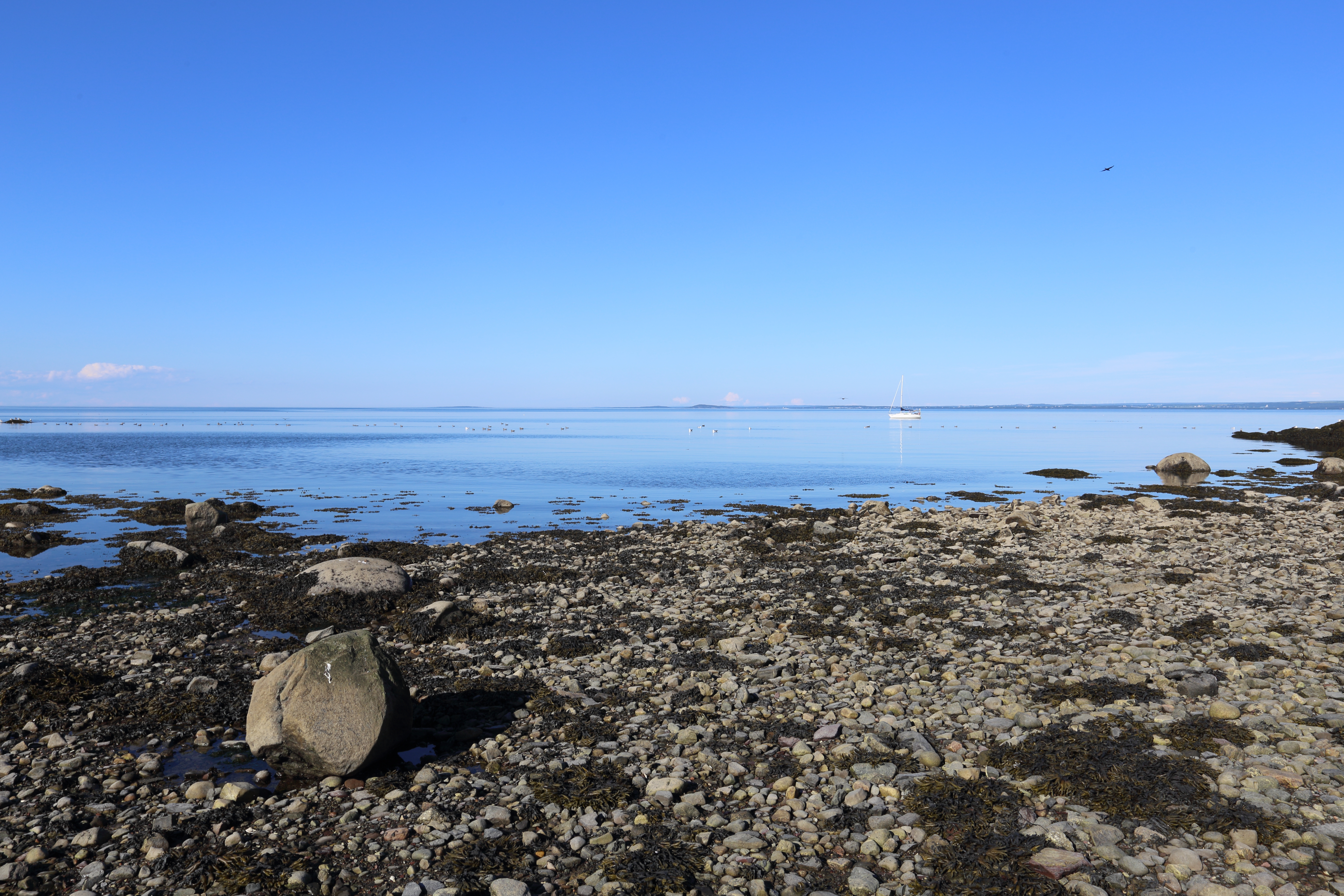 Pot à l'Eau-de-Vie islands (Brandypot islands) on Saint Lawrence River, Quebec, Canada